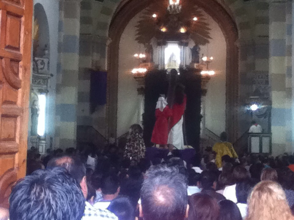 In the town of Real del Monte in the state of hidalgo (Mexico) a mass takes place with a representation of Jesus carrying the cross,.That mass lasts four hours approximately and the young man that is Christ is there all the time to show his devotion an faiith in God.